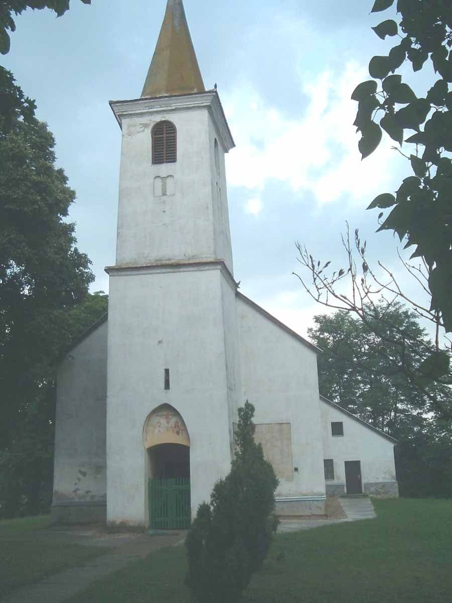 The church of Sorokpolány, Hungary